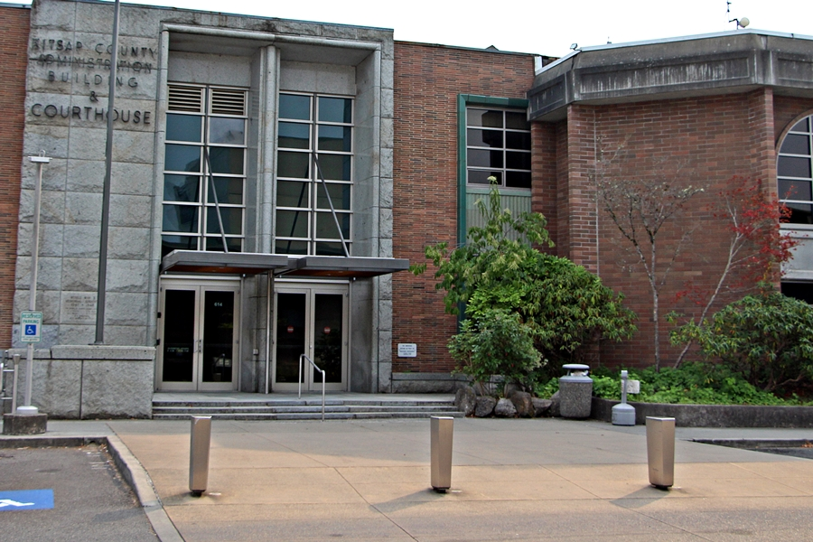 the Kitsap County Administration Building and Courthouse; Port Orchard, Washington, USA